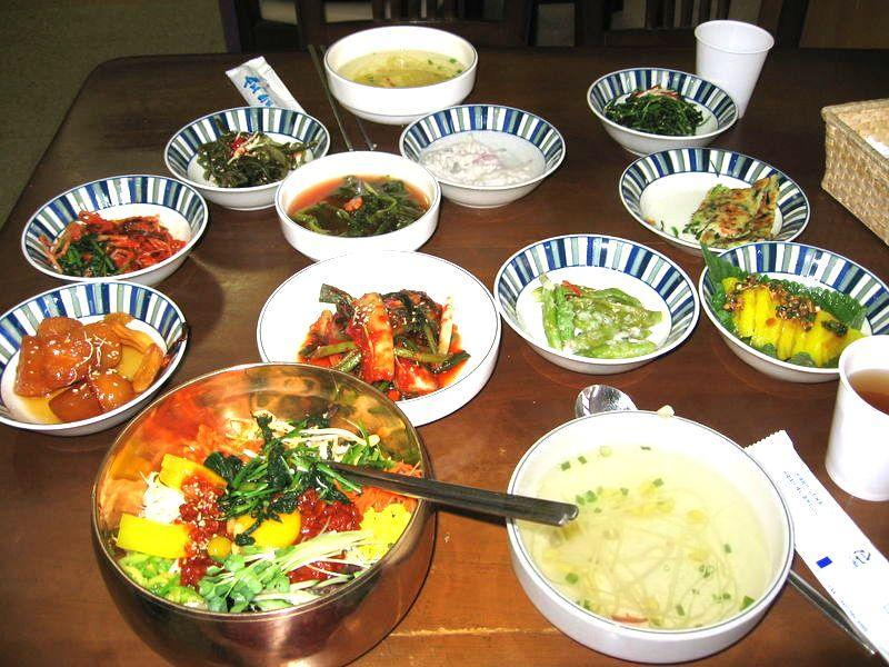 비빔밥 (Bibimbap), a famous Korean dish with sidedishes. Taken in Jeonju.